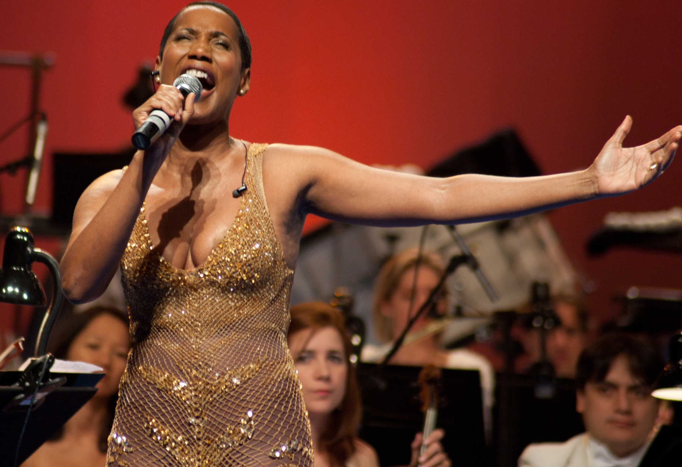 Brazilian singer Daúde during Ministry of Culture event © Pedro França/MinC